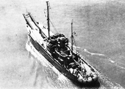 Silverbell (AN-51) underway, date and place unknown.